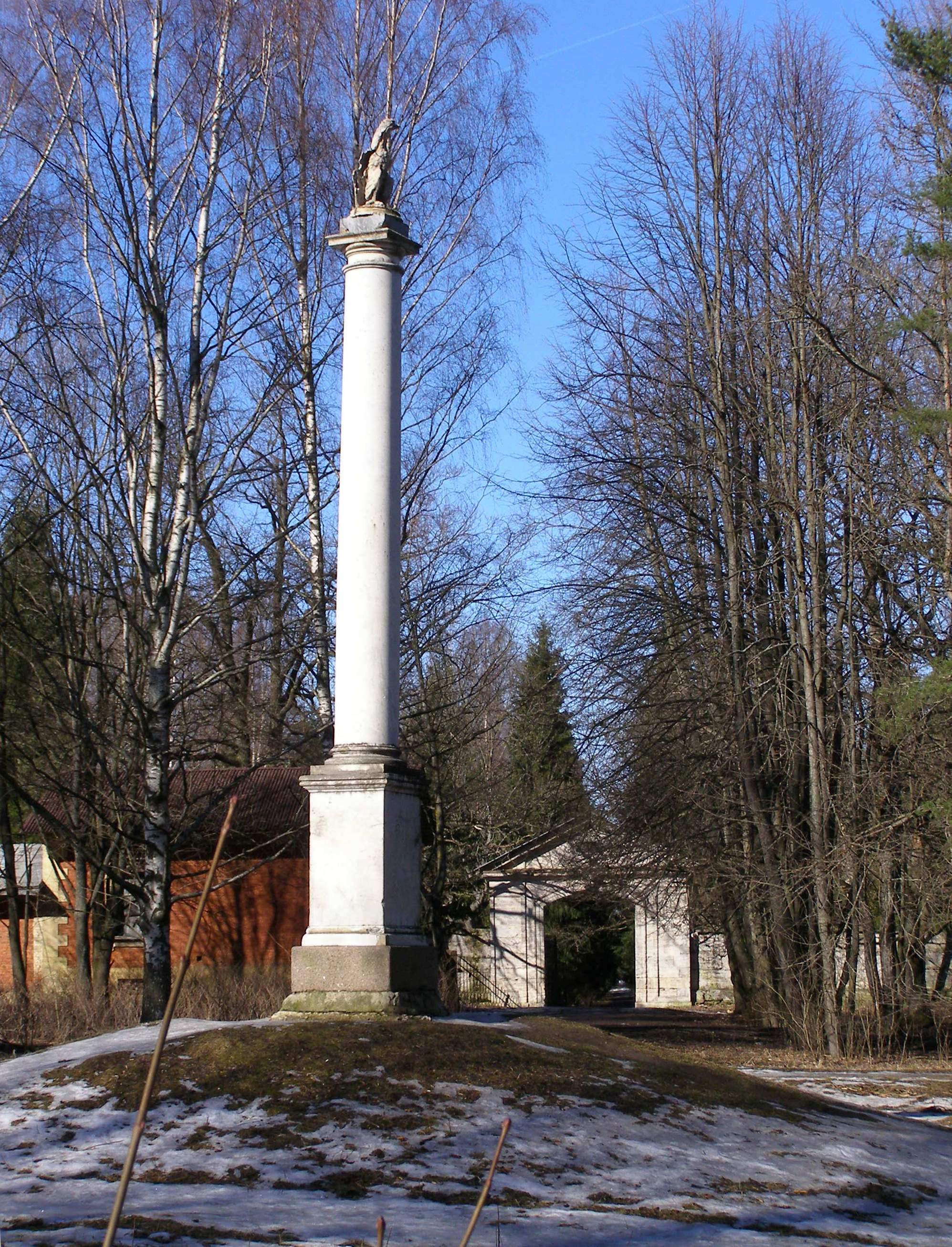 Kolonna Orla (Eagle Column) in Gatchina